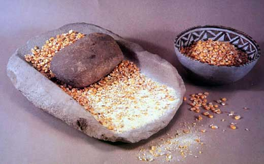 This mano (Spanish for “hand”) and metate (the larger stone surface) were used for grinding corn before it was cooked. Corn originated in MesoAmerica and was grown in Mesa Verde beginning in A.D. 450. By the time Europeans made contact with Native Americans, more than 350 varieties of corn (or maize) were being cultivated in North America. Corn was transported to Spain in the 15th century and is now the third most valuable food crop in the world. Ancestral Puebloans were skilled at “dryland farming” (farming without irrigation), which allowed them to grow crops such as corn that would mature quickly to accommodate the short growing season. They constructed check dams and other water and soil conservation devices to take advantage of what little water came from rainfall and to avoid depleting the fertile soil. Bowl is likely also from Mesa Verde. Display at MVNP museum.